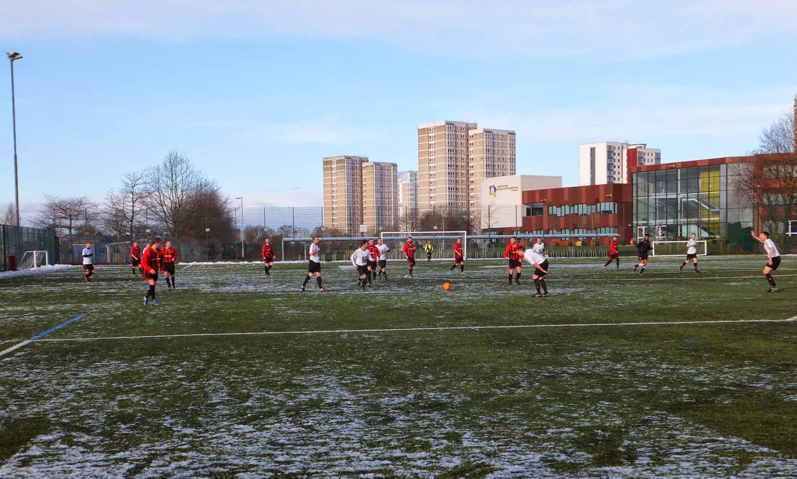 Sports pitch at Manchester Creative and Media Academy pictured during the winter.